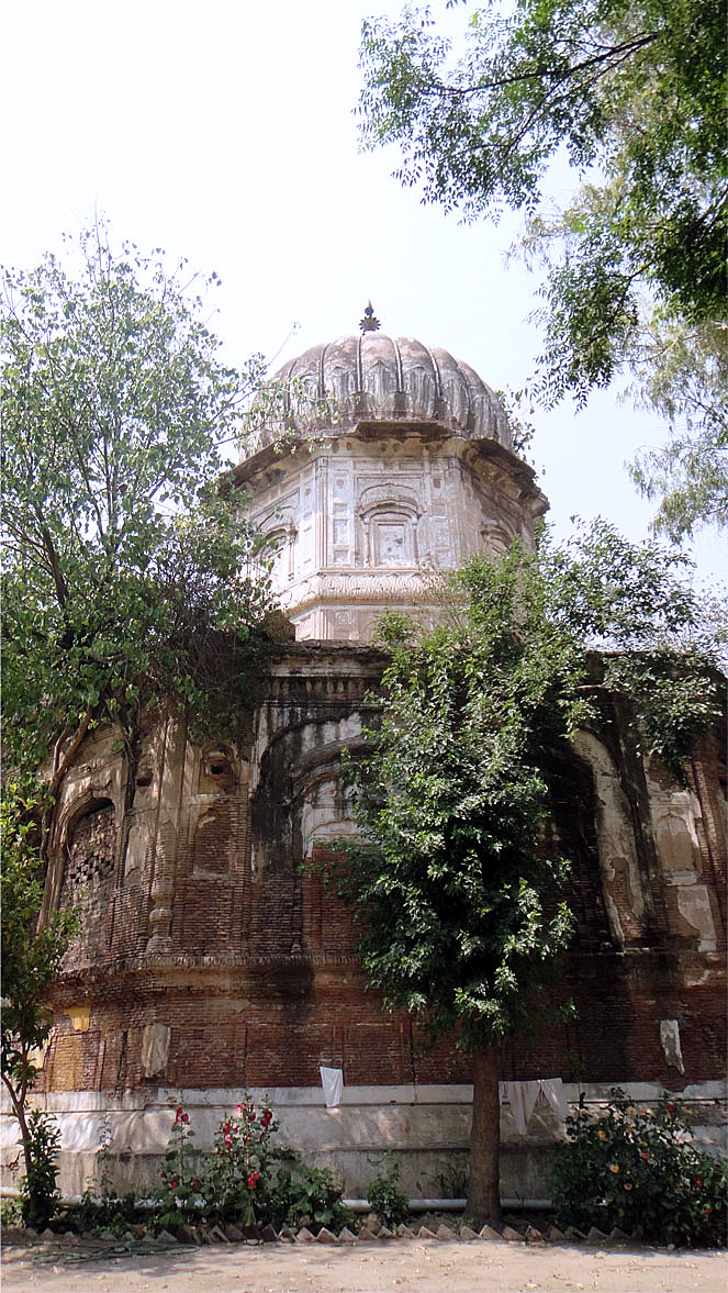 Tomb of Maha Singh or Mahan Singh, near Sheranwala Garden, Gujranwala.